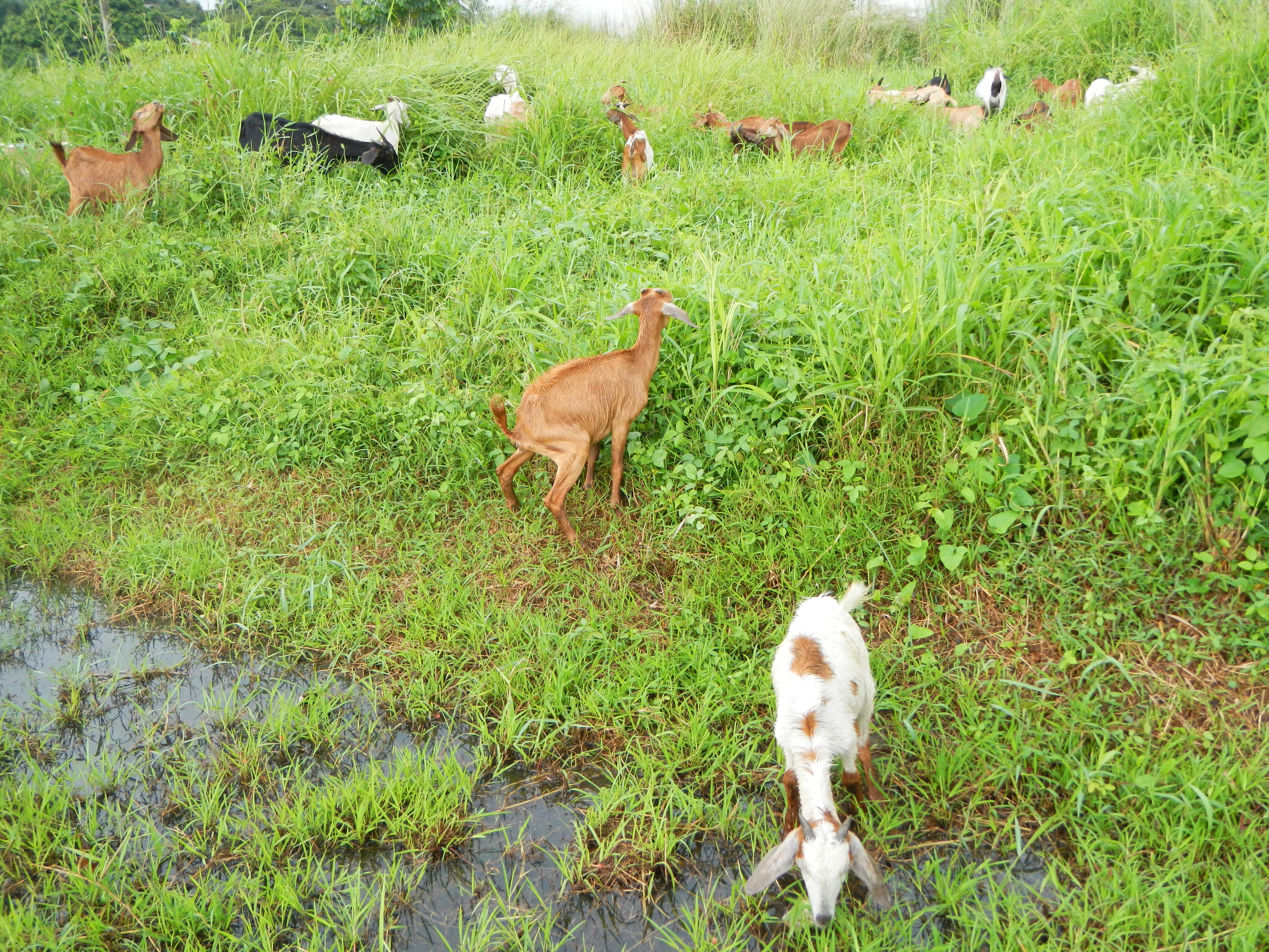 Free range razing, native goats of Philippines